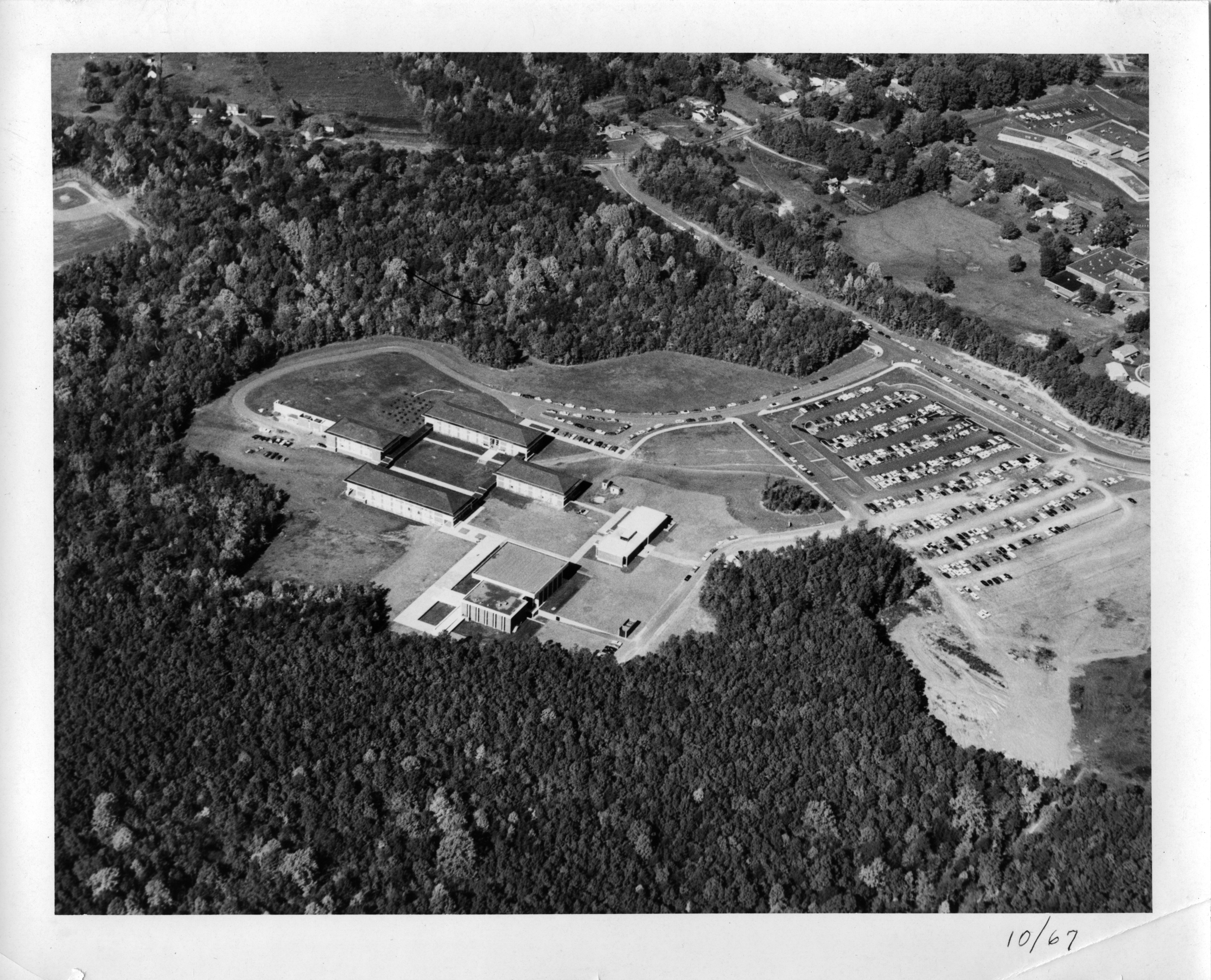 Blue Ridge Aerial Surveys, “George Mason College, Fairfax campus, 1967, aerial photograph looking north,” A History of George Mason University. Aerial photograph of George Mason College, Fairfax campus. Photo depicts, Fenwick Library, Lecture Hall, and North, South, East, and West Buildings. 8" x 10" photograph print; black and white.